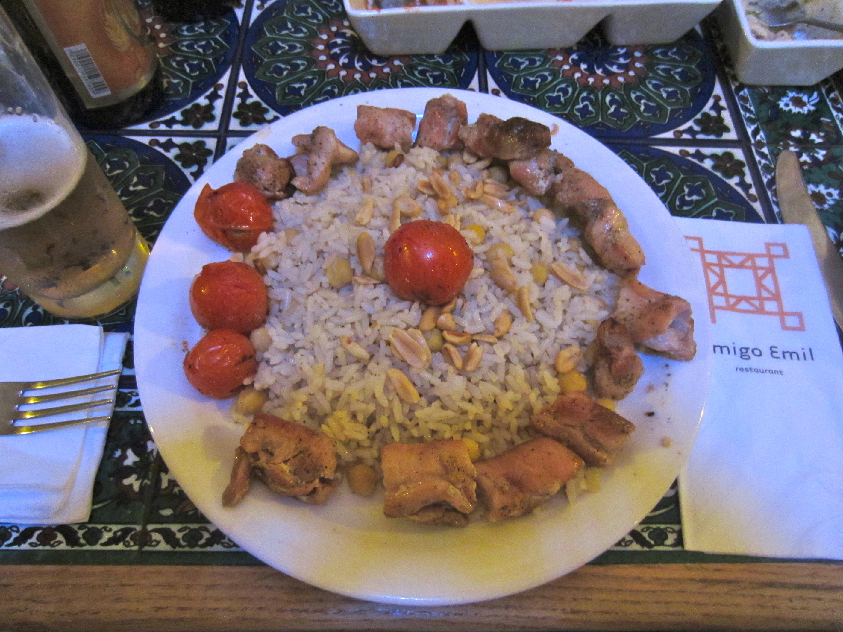 A colleague recommended the "Amigo Emil" restaurant in the Christian Quarter to us -- "despite the name, it's not Mexican, and it's really good!" Indeed all we had *was* good -- I had this qidreh (grilled chunks of chicken & tomatoes served on rice with toasted peanuts and chickpeas -- and a fantastic yogurt sauce to go on top of it, Jerusalem